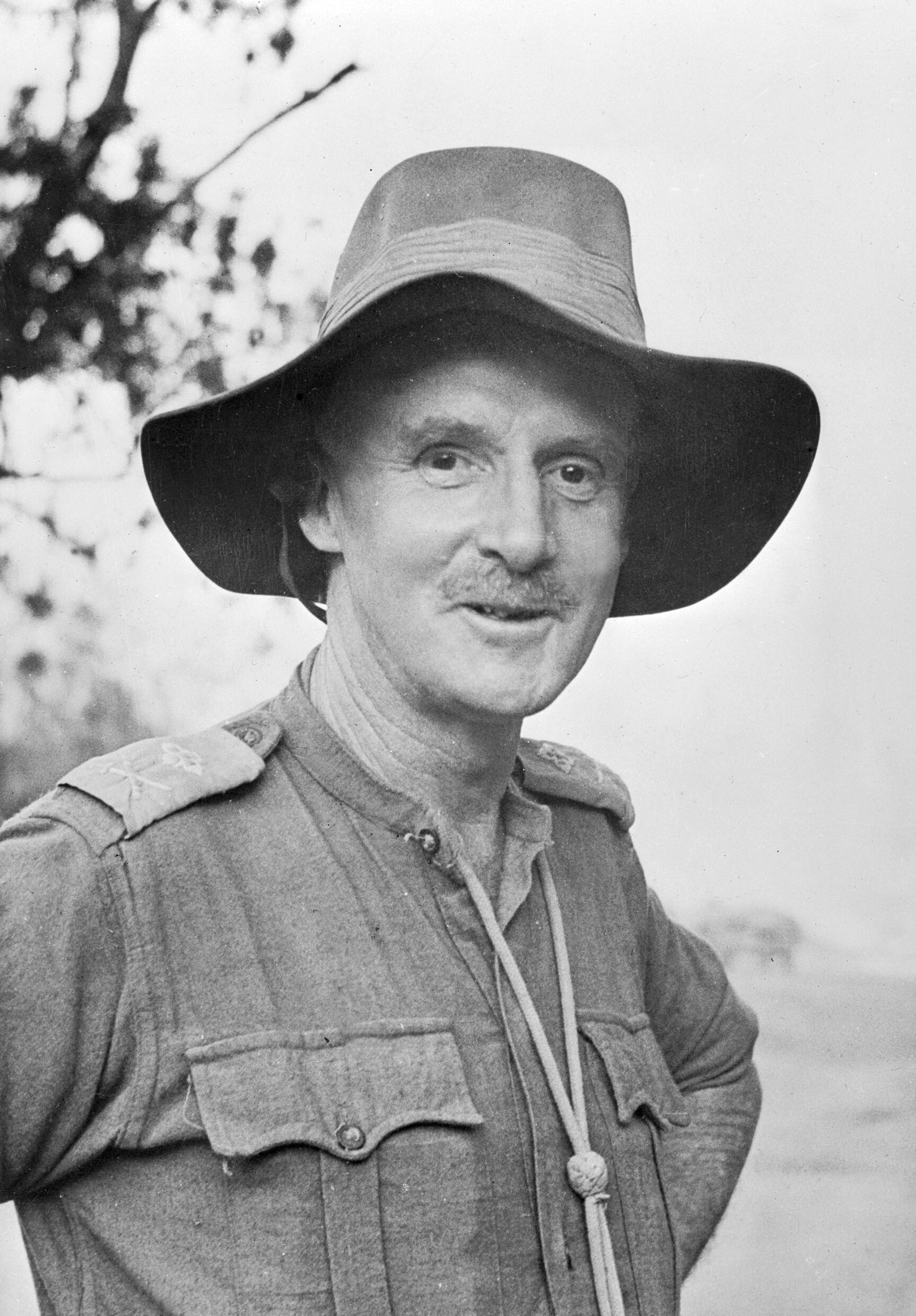 British Generals 1939-1945 General Sir Frank Messervy (1893 -1974): Head and shoulders portrait of General Messervy, Commanding the 7th Indian Division, in the Arakan.